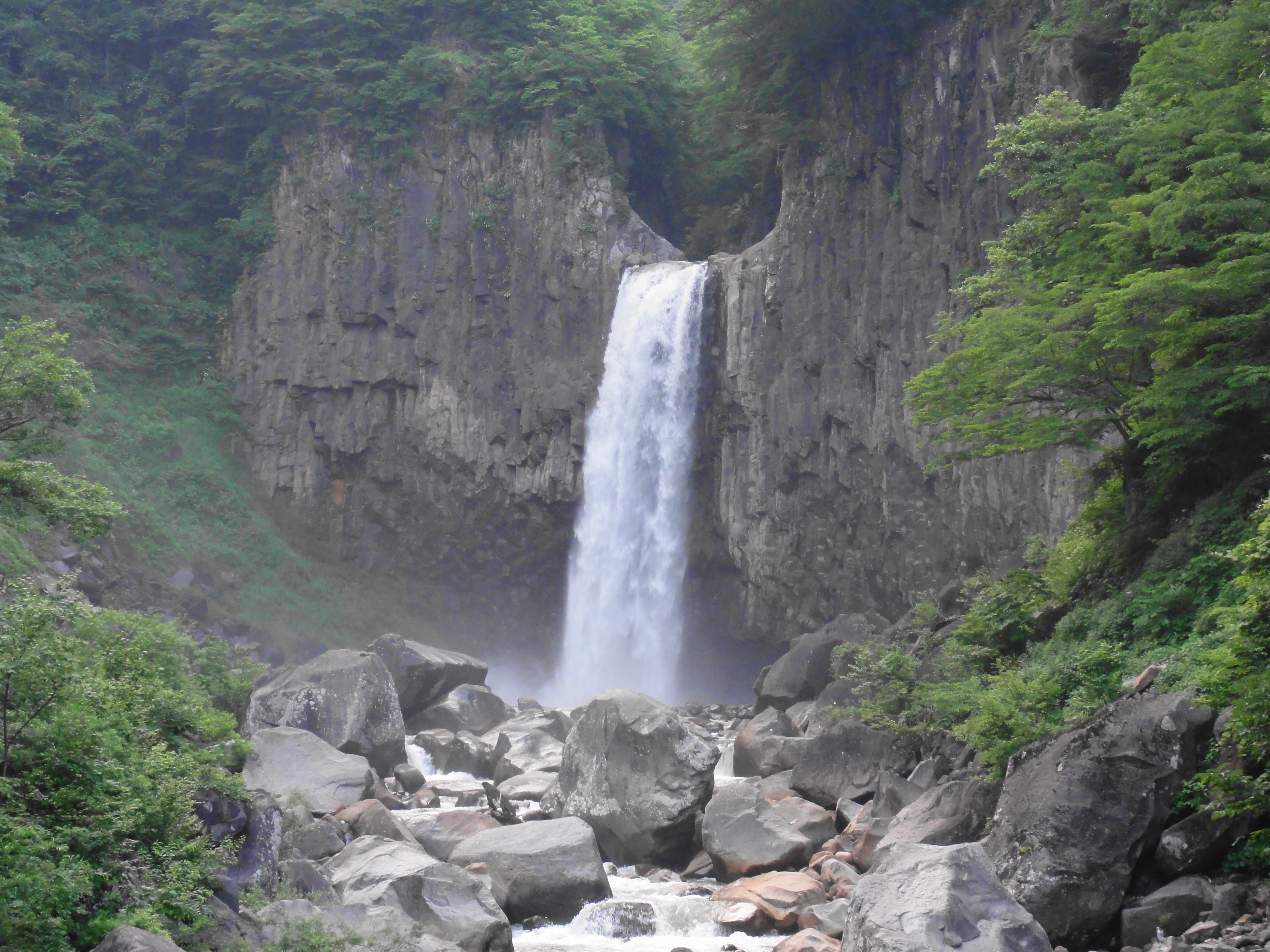 Naena-taki waterfall,Niigata prefecture, Japan